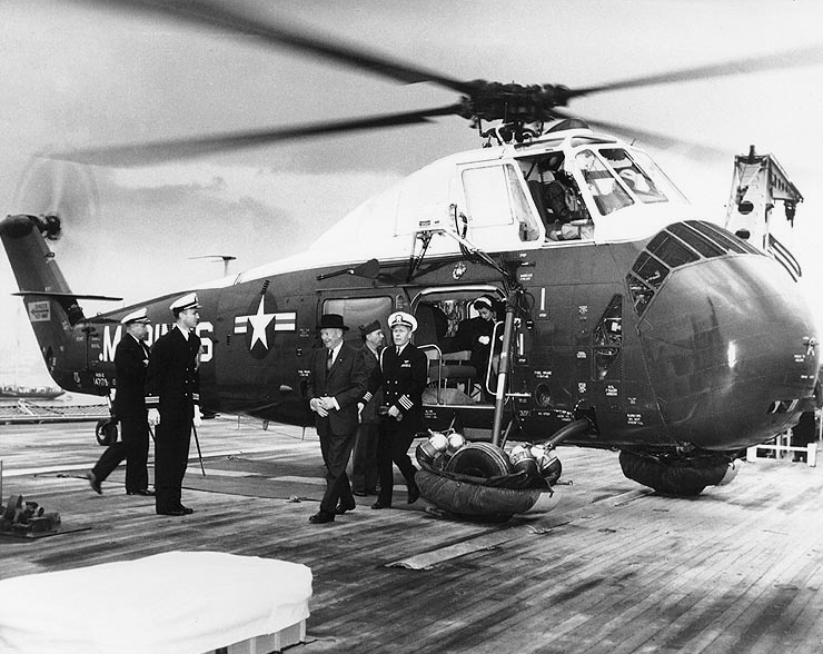 The U.S. President Dwight D. Eisenhower arrives via U.S. Marine Corps helicopter on board the U.S. Navy heavy cruiser USS Des Moines (CA-134) in the harbour of Athens, Greece, 15 December 1959. Following the President is his Naval Aide, Captain Evan P. Aurand, USN. The helicopter is a Sikorski HUS-1 Seahorse (BuNo 147179). Note the floatation gear fitted to its main wheels.